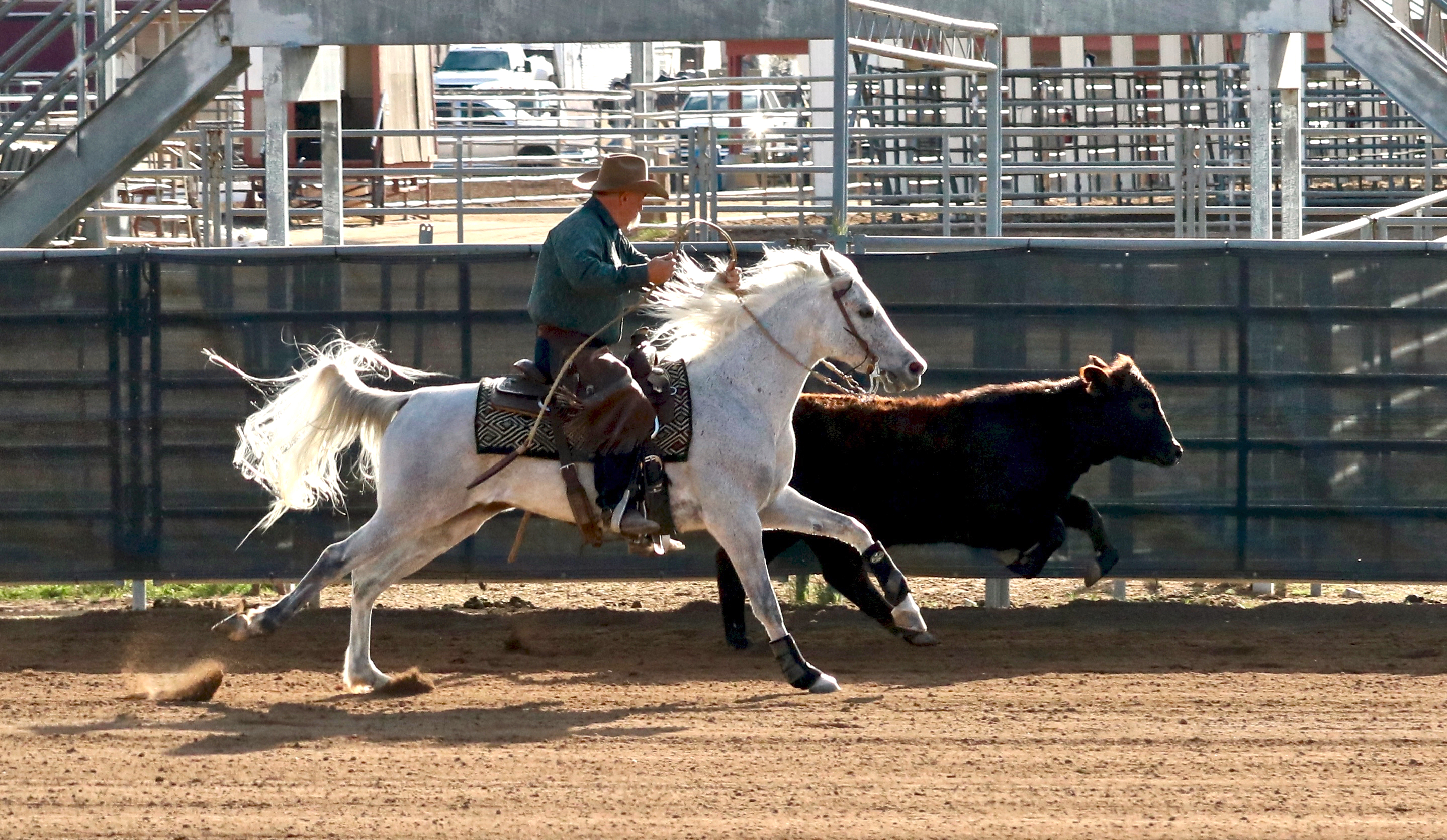 Working cow horse, running the cow down the fence; 2017 Scottsdale Arabian Horse Show, Scottsdale, Arizona